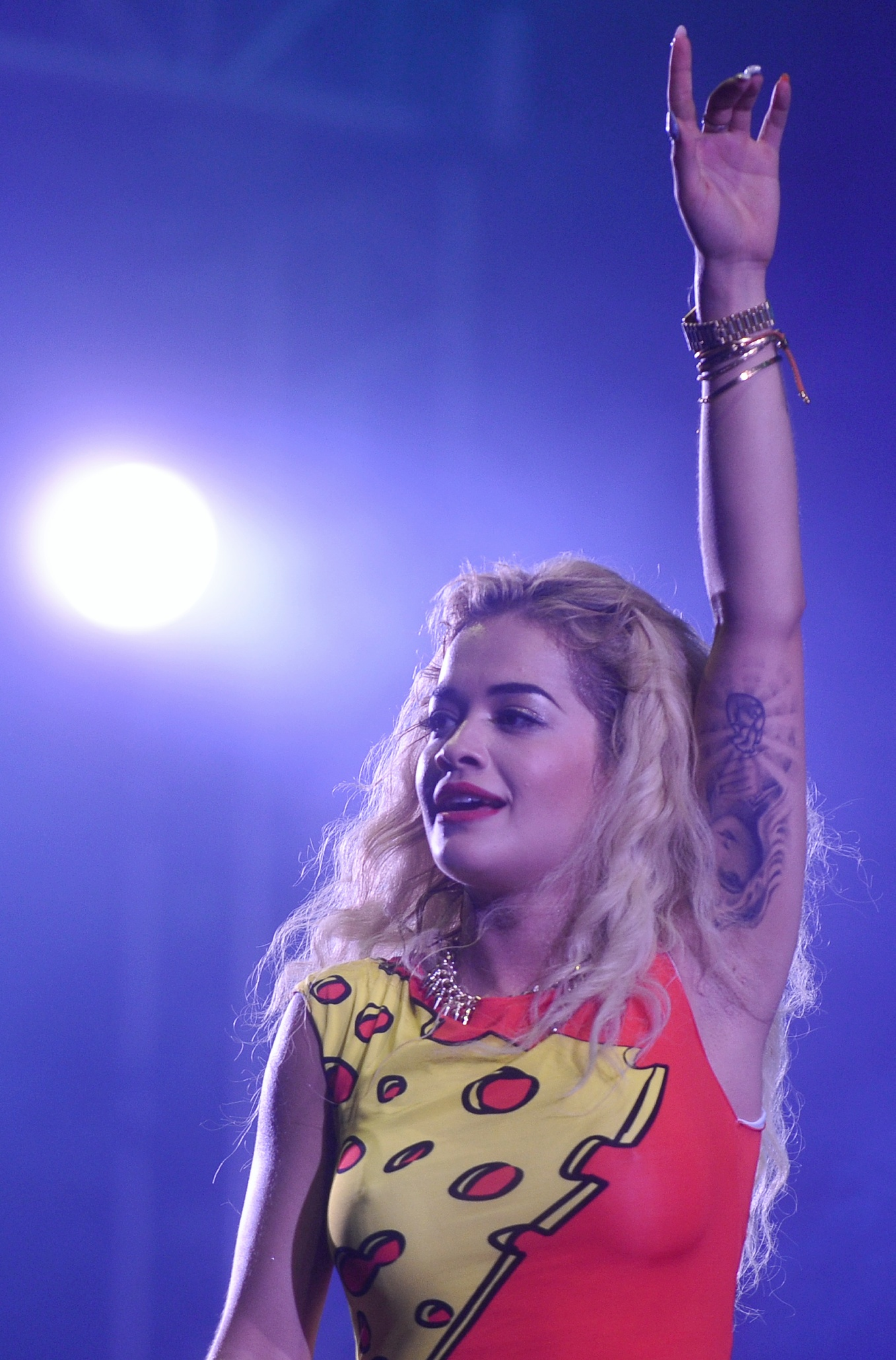 SEPANG,17/03/2013. Rita Ora during Future Music Festival Asia 2013 at Sepang. Pix Firdaus Latif